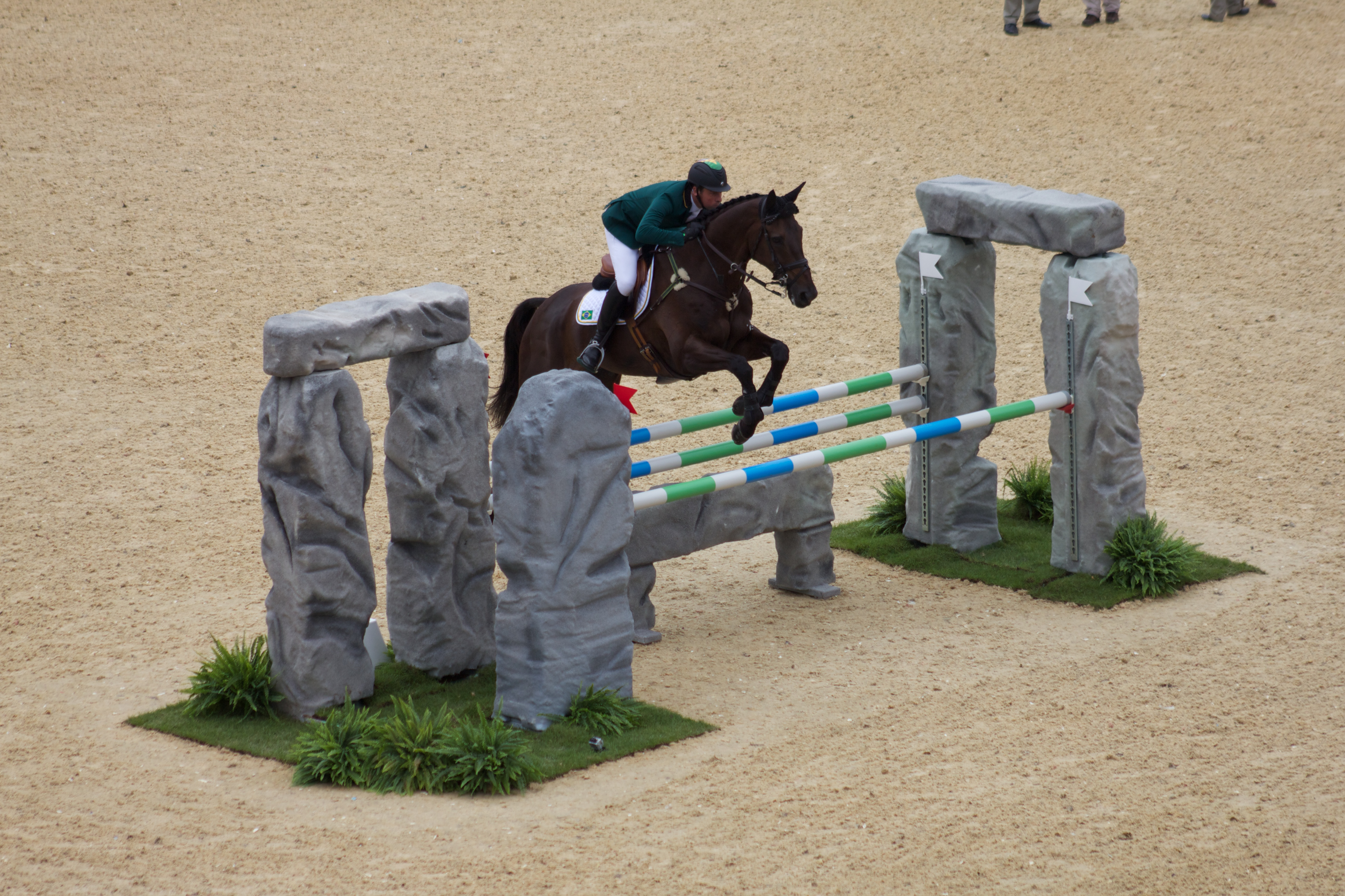 Equestrian sports at the 2012 Summer Olympics